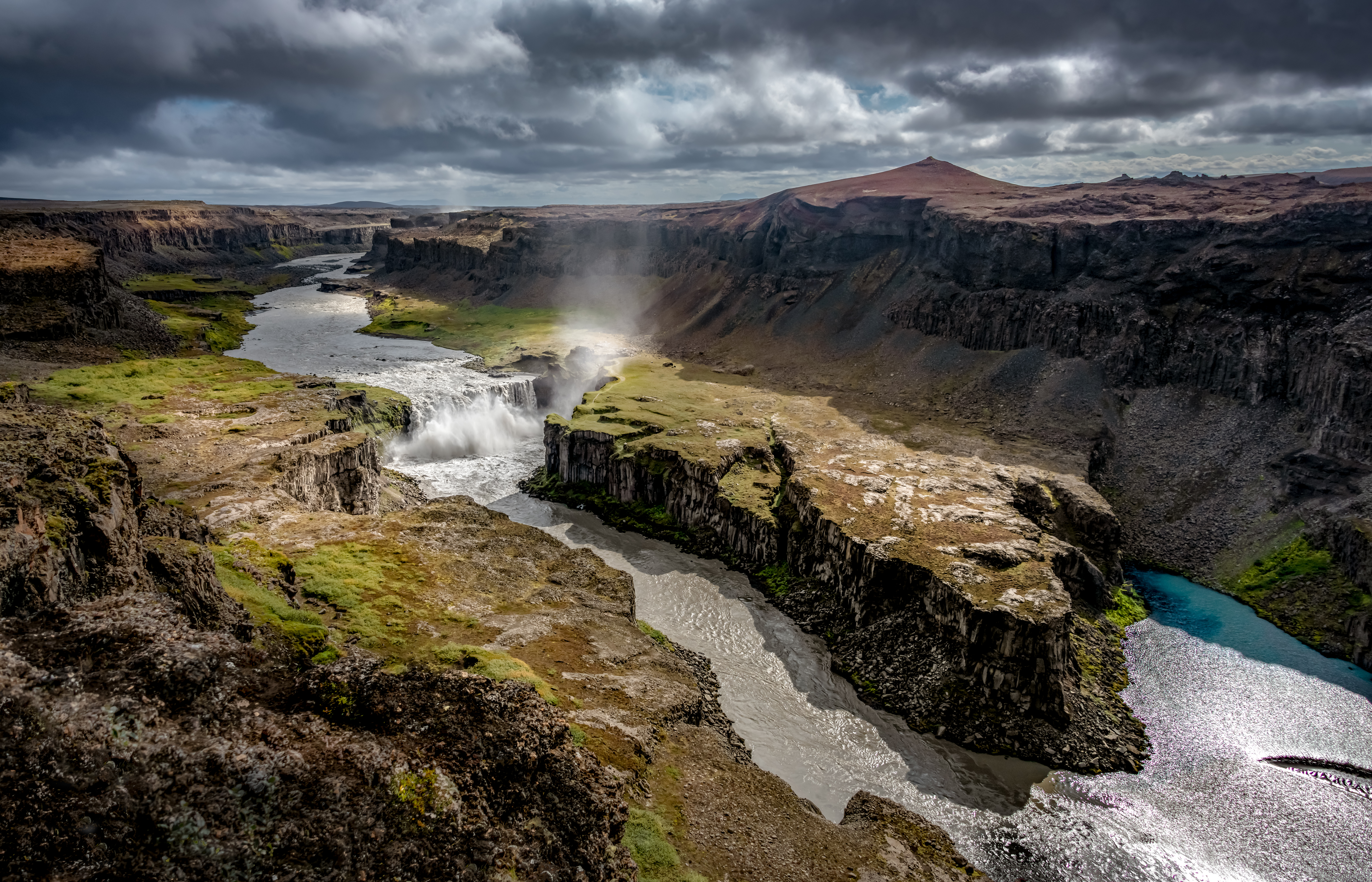 Viewpoint overlooking the Jökulsárgljúfur canyon in northern Iceland. The Hafragilsfoss is a 27 m high waterfall of the river Jökulsá á Fjöllum, about 2 km downstream from the Dettifoss. The source of the river is the Vatnajökull glacier, from where it flows to the north into the Greenland sea. The canyon was formed during catastrophic glacial floodings following volcanic activity that took place only a few thousand years ago.